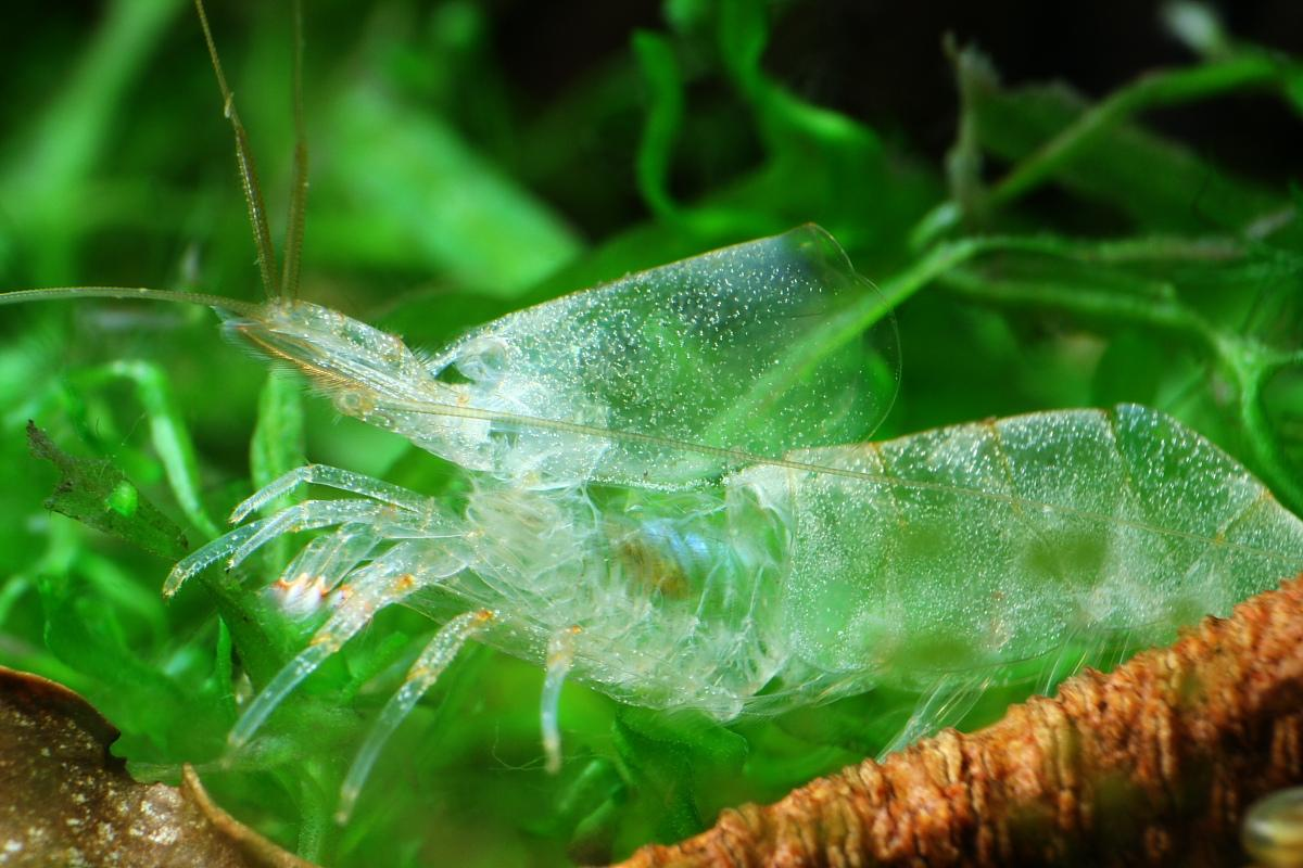 Exuvia of Caridina multidentata